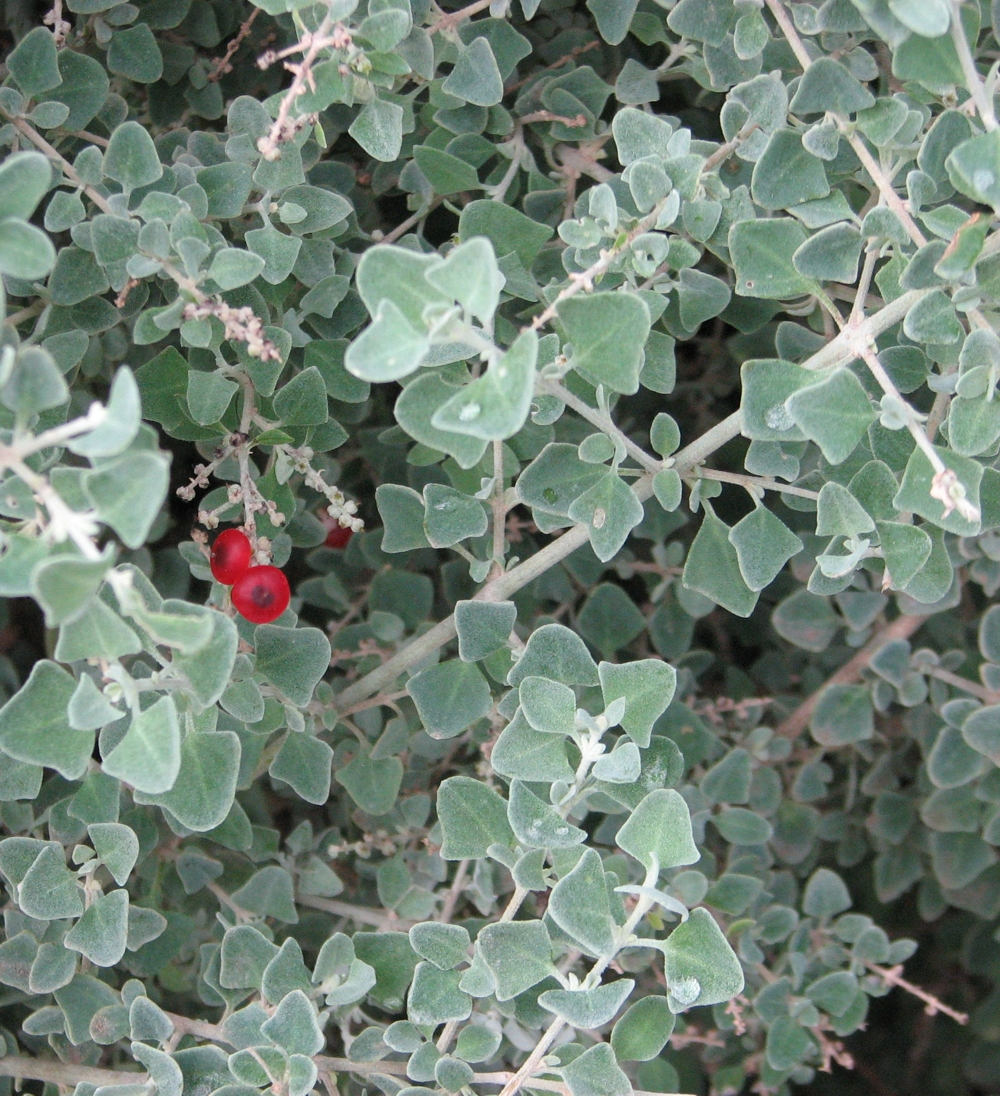 Chenopodium curvispicatum, (culivated, labelled) Geelong Botanic Gardens Victoria, Australia